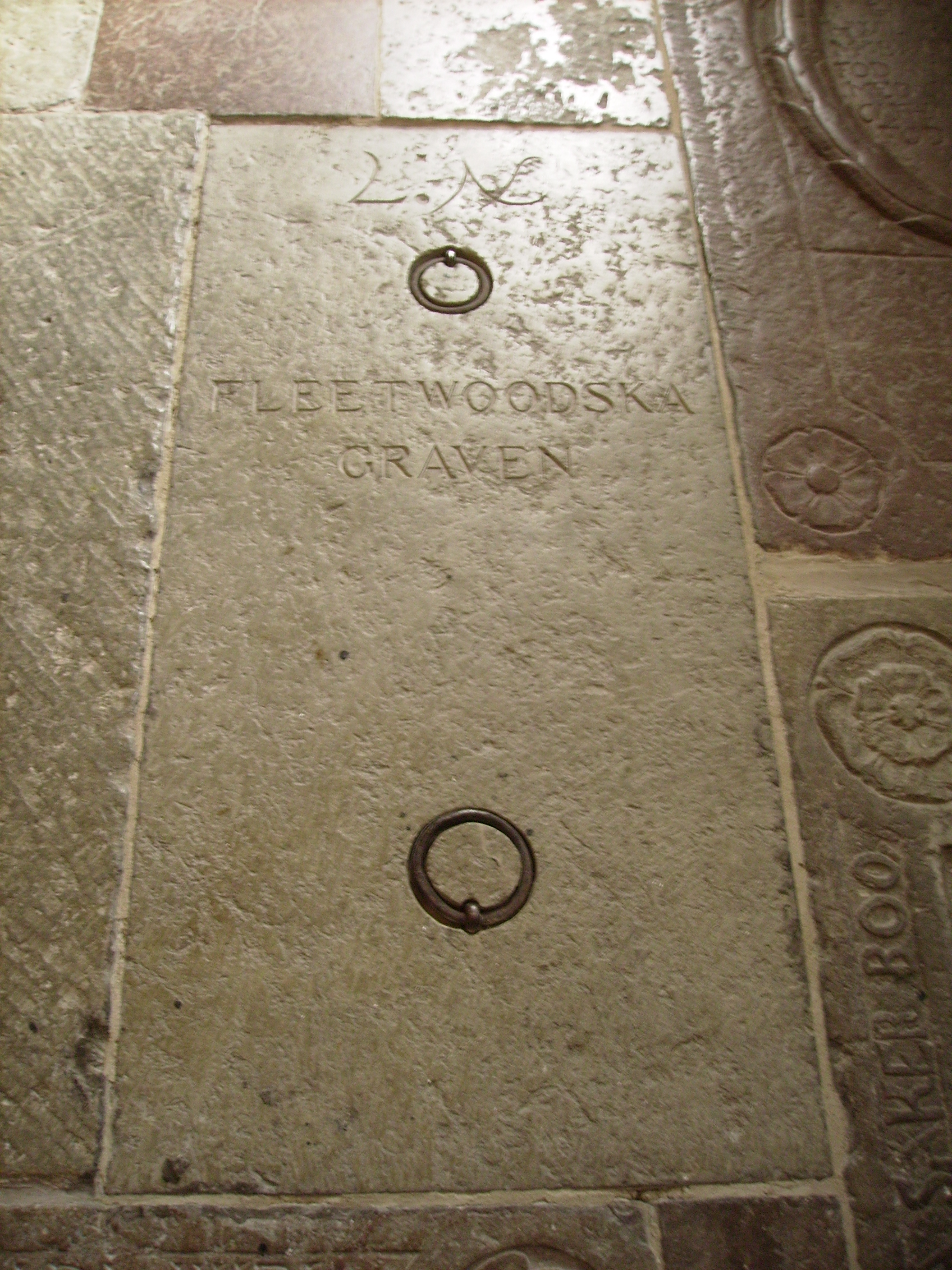 Picture of Fleetwoodska graven in Allhelgonakyrkan in Nyköping